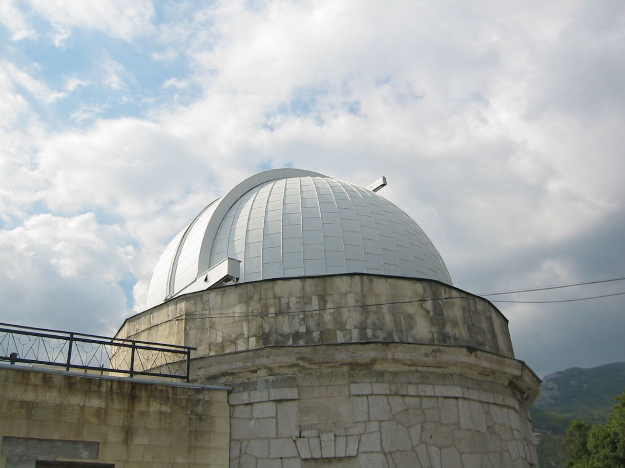 The Crimean Astrophysical Observatory on mount Koshka (the Cat) near the little town of Simeiz. The 40-cm double astrograph and 122-cm reflector as well as Lyot-coronagraph were received for the observatory from Germany as reparations. The beauty of the observatory site, the telescopes and the instruments together with a rich history and the current high scientific activity of the astronomers staff make the Observatory as a quite attractive place. During many years it was a unique site in combining active scientific research with teaching for students and postgraduates in astrophysicists. Many astrophysicists of FSU have been trained at the Crimean Observatory. During the period 1945 - 1960 a great number well known at that time astrophysicists had been working in Observatory.